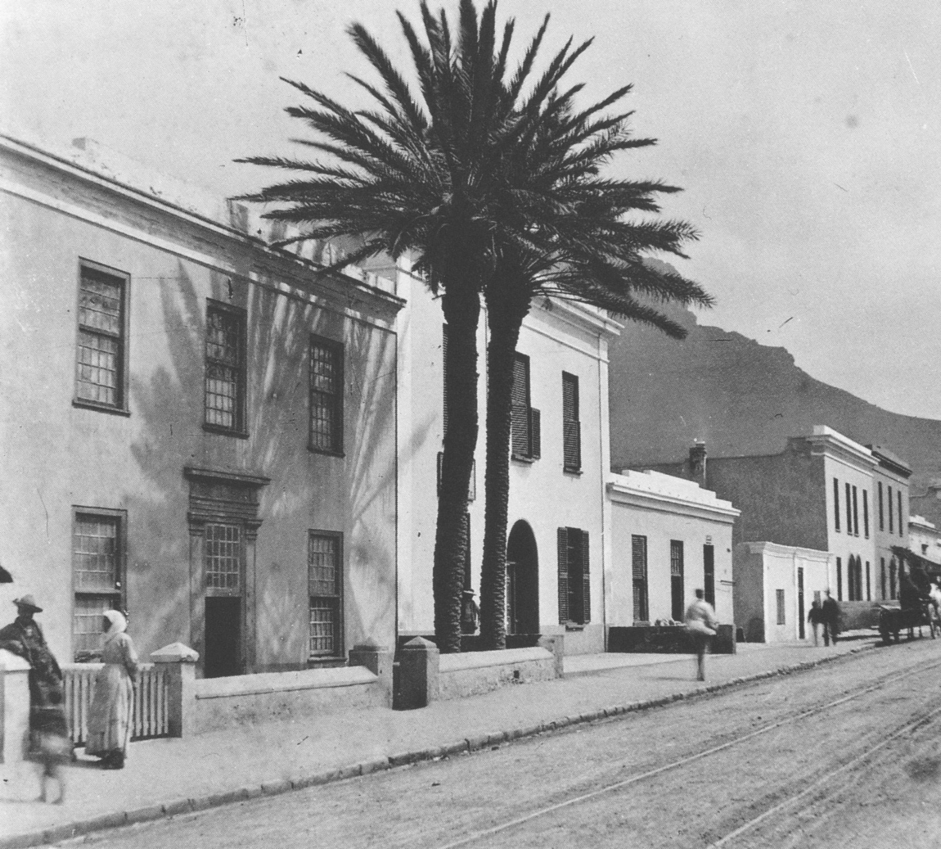 This mosque, converted from a house, stands on lands once owned by Hermanus Smuts, granted to him in 1751. It is at 186 Long Street, Cape Town.